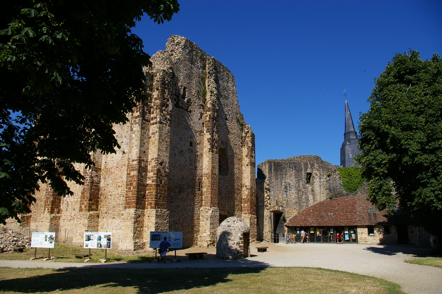 Some description in English.